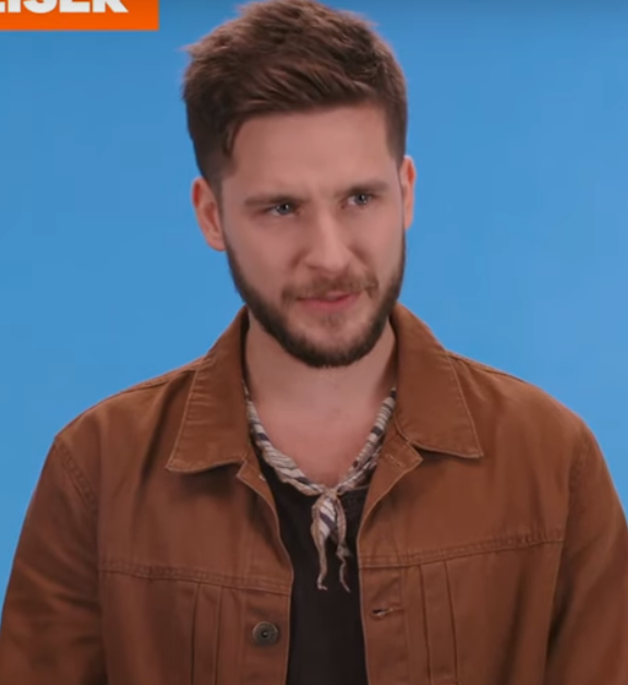 Beyoncé or SpongeBob? Kanye or TMNT? Join Kel Mitchell, Nathan Kress, Devon Werkheiser, Josh Server, Meagan Good, James Maslow, Daniella Monet, and Anthony Padilla as they guess if quotes are from their favorite cartoon characters or musical superstars!